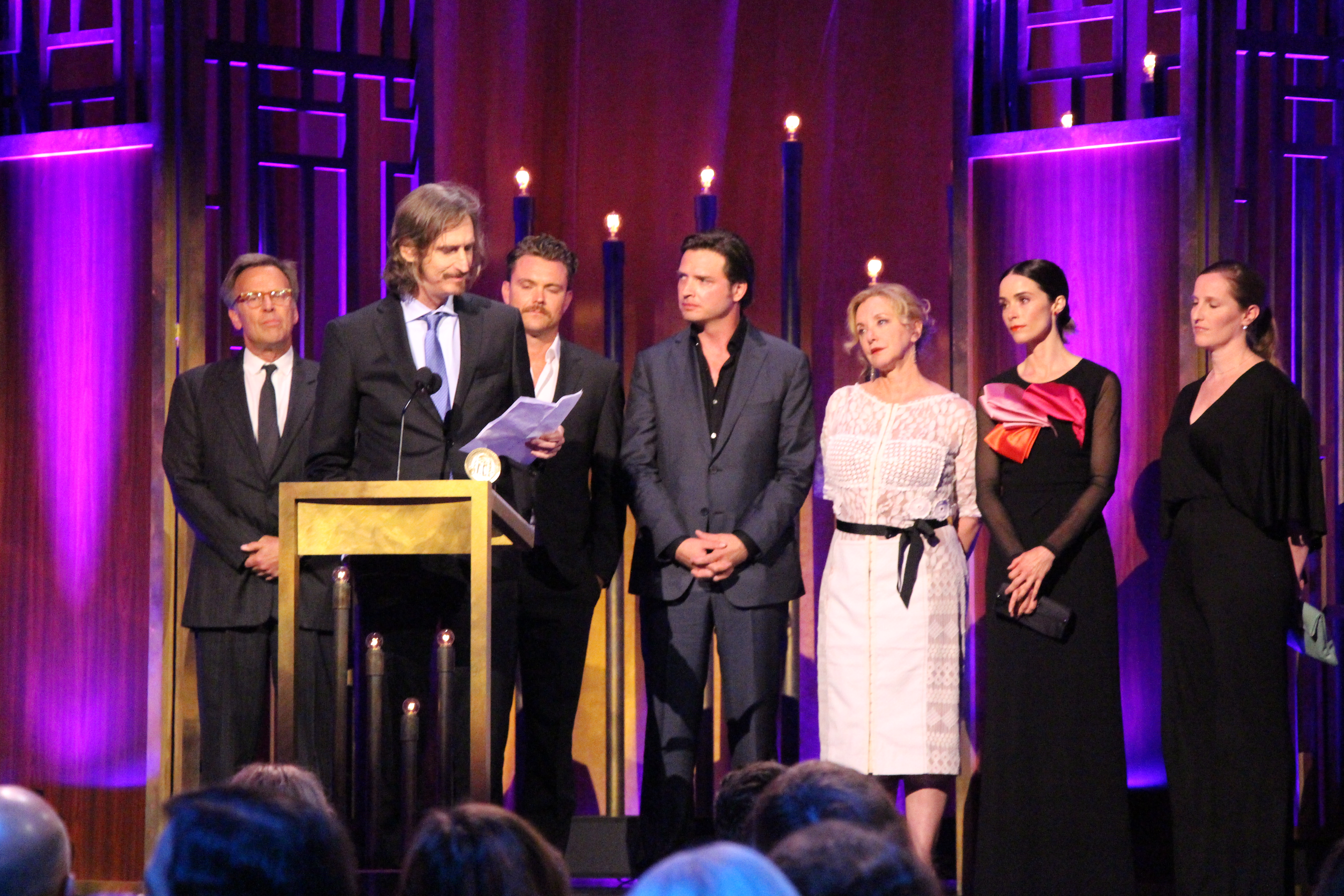 Creator, Writer, Executive Producer Ray McKinnon accepts the Peabody for Rectify. He is joined on stage by Mark Johnson, Clayne Crawford, Aden Young, J. Smith-Cameron, Abigail Spencer and Melissa Bernstein.